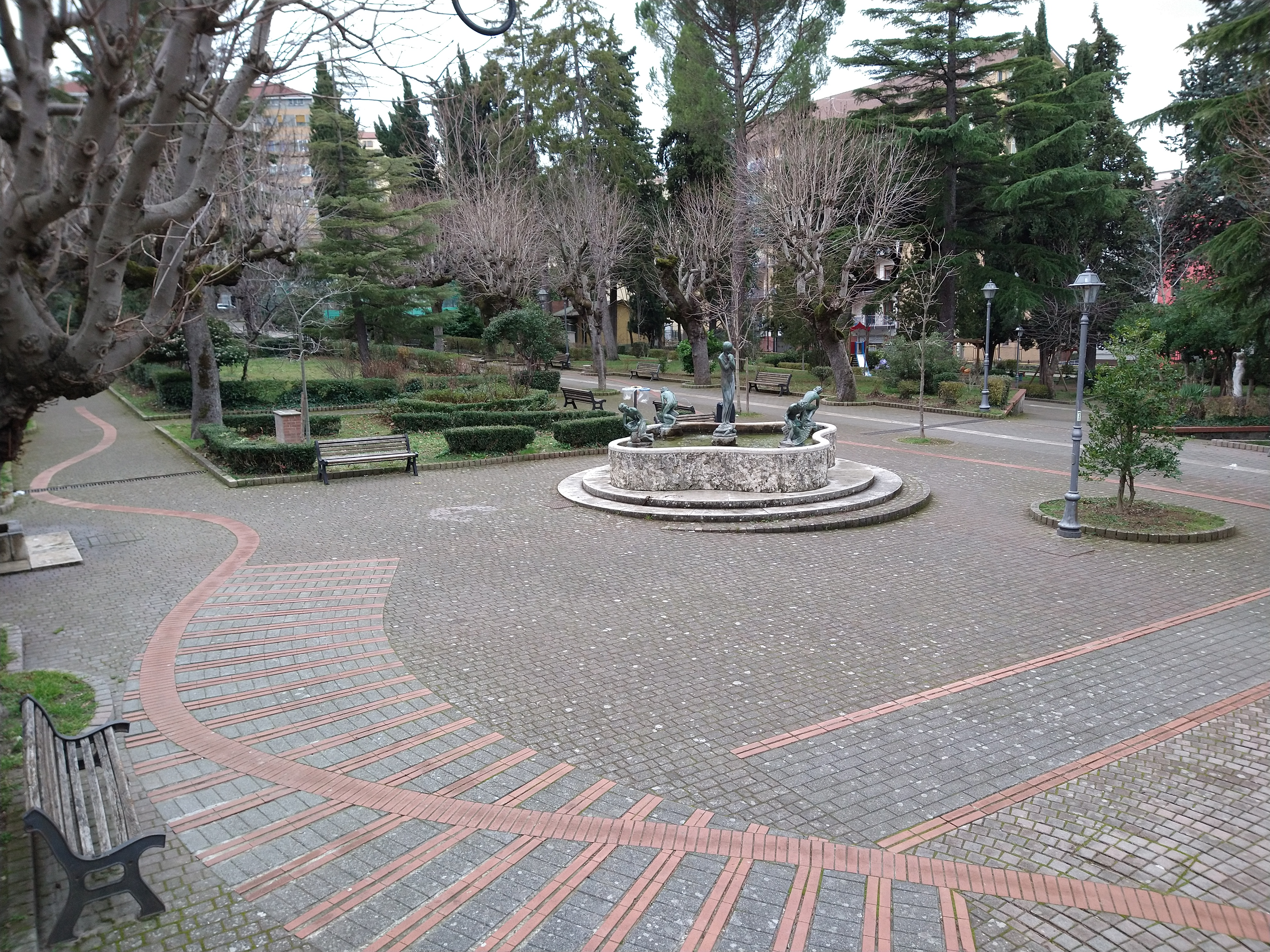 Villa comunale di Santa Maria, public park in Potenza.